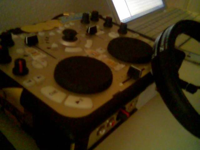 Hercules DJ Control Double Deck × Native Instruments